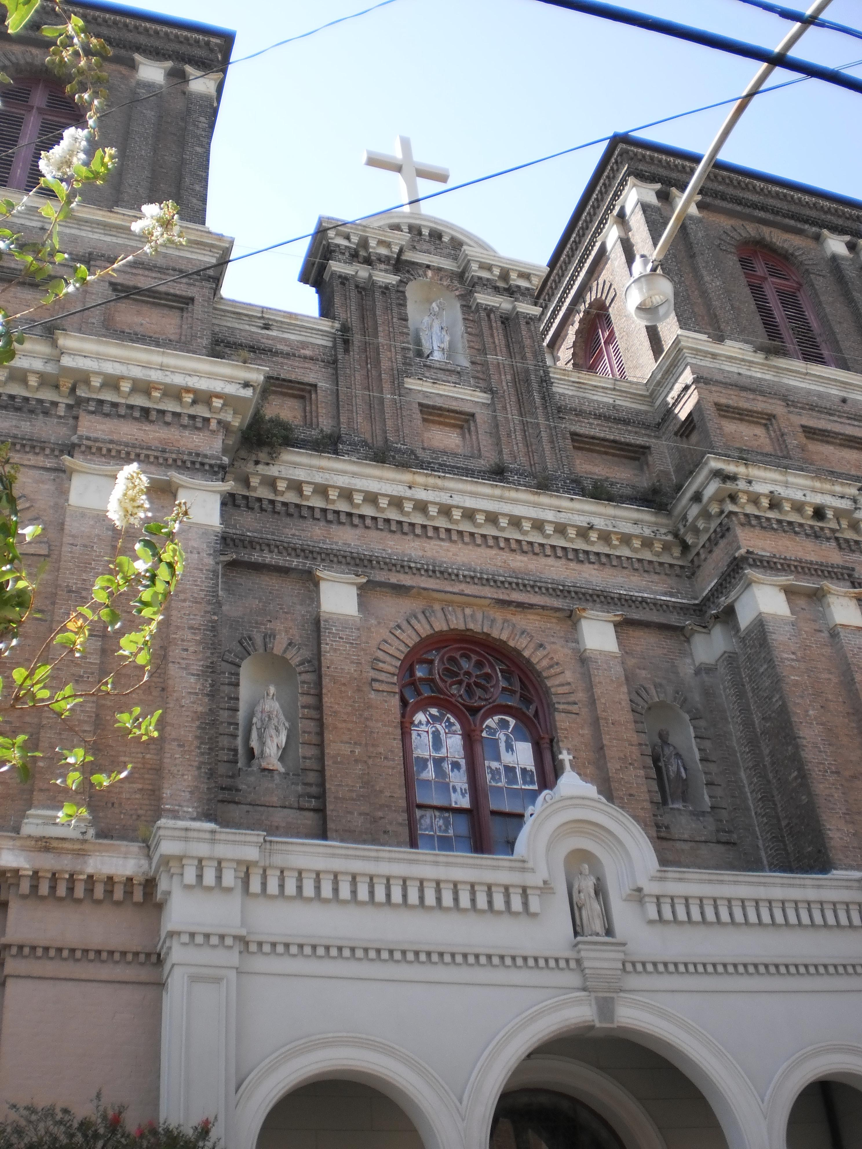 St. Alphonsus Church of the Irish Channel, New Orleans. Historically, this was a parish for the Irish immigrants to New Orleans in the 19th century.